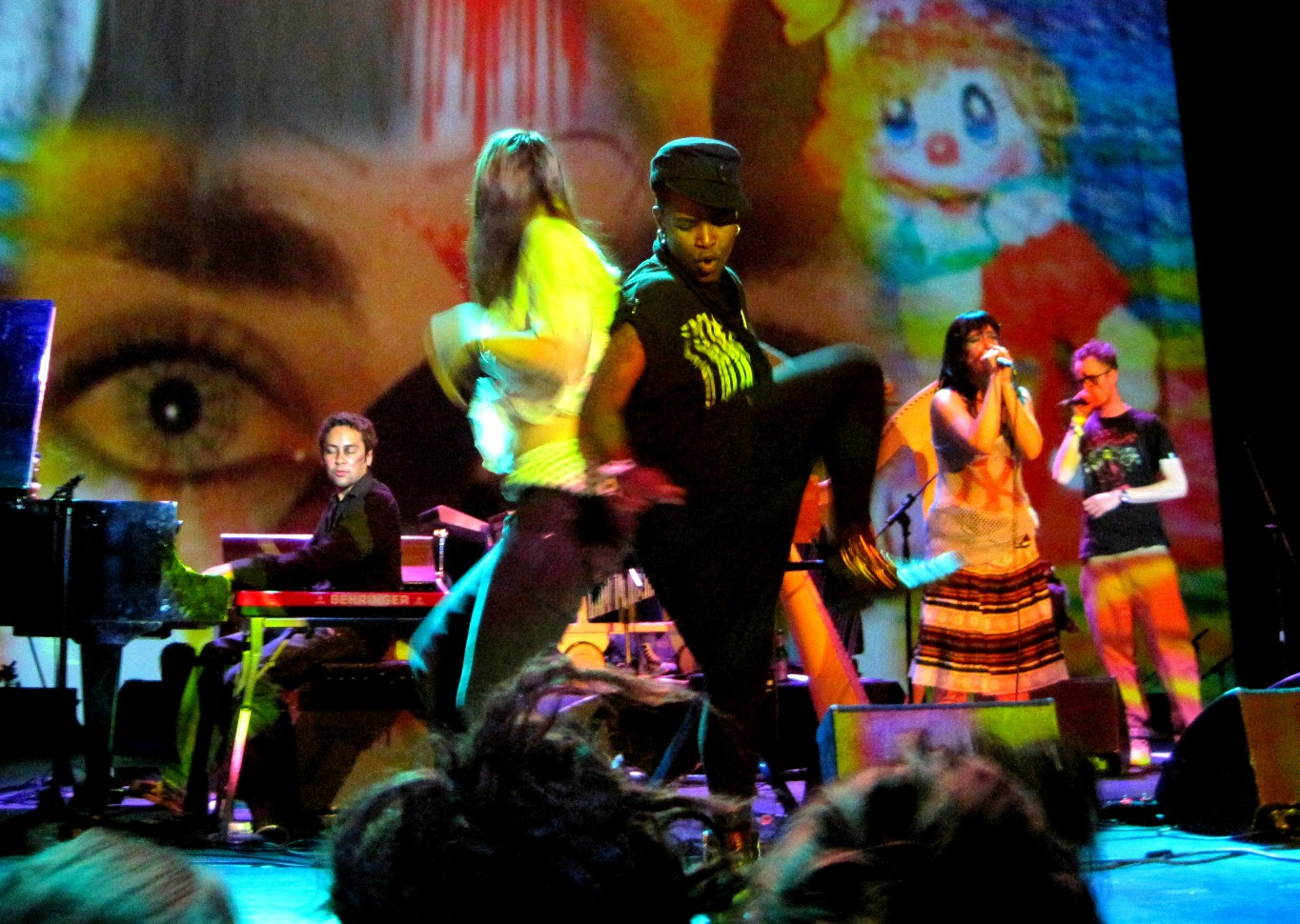 The US-American musical group CocoRosie performing in the Admiralspalast, Berlin